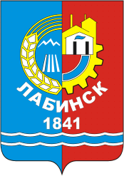 Labinsk (Krasnodar krai), coat of arms (1970)